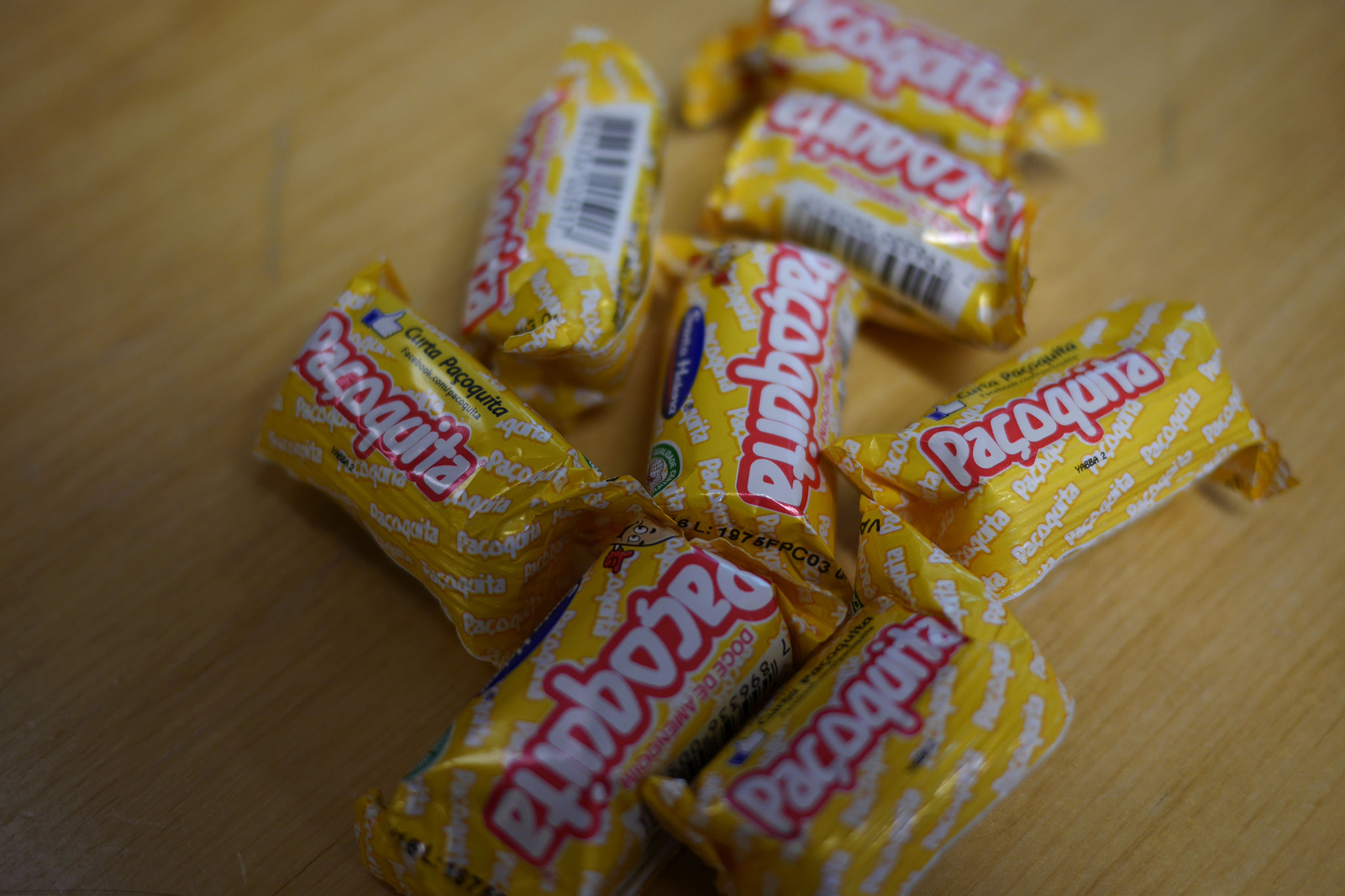 500px provided description: Paçoca S [#2015 ,#Food ,#Snacks ,#GUADEC ,#Confrance]